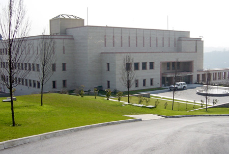 The United States Consulate in Istanbul, Turkey, which opened in 2003, has fortified walls, security checkpoints and barriers set far from the building.